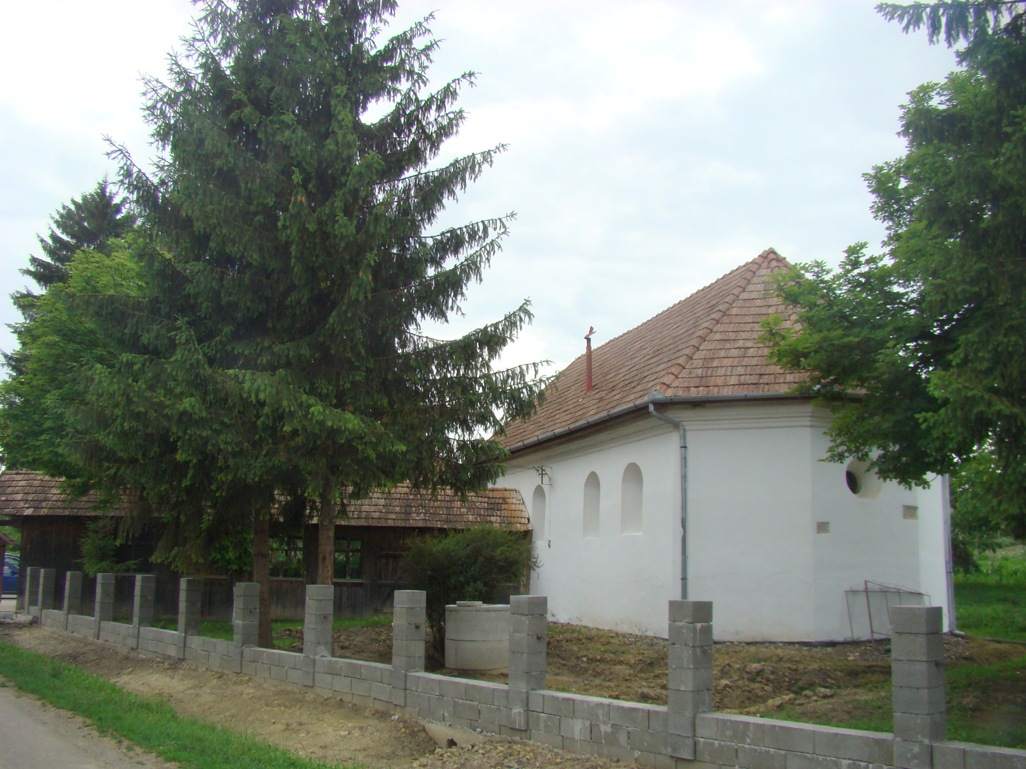 Reformed church in Culpiu, Mureș county, Romania